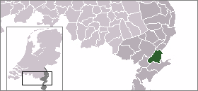 Location of Roermond